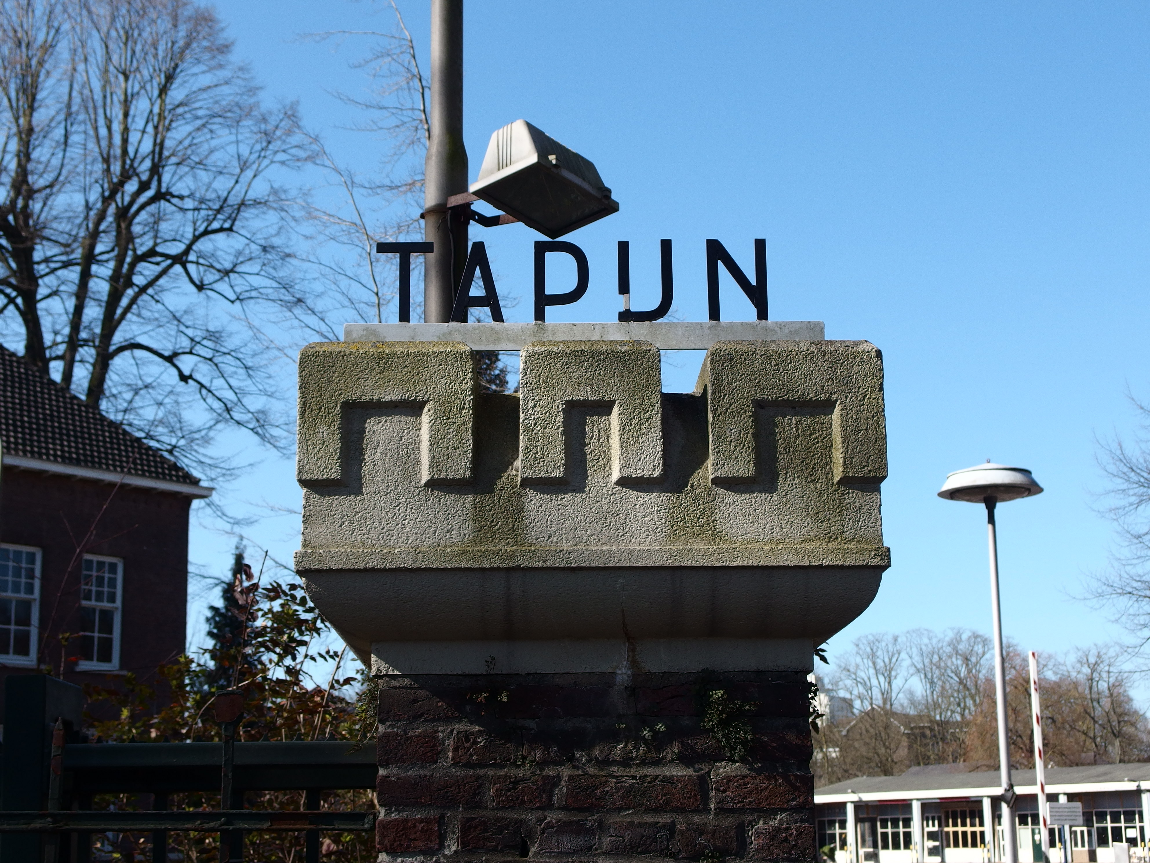 2015-03-12 in Maastricht; at Tapijnkazerne (Tapijnbarracks) terrain.